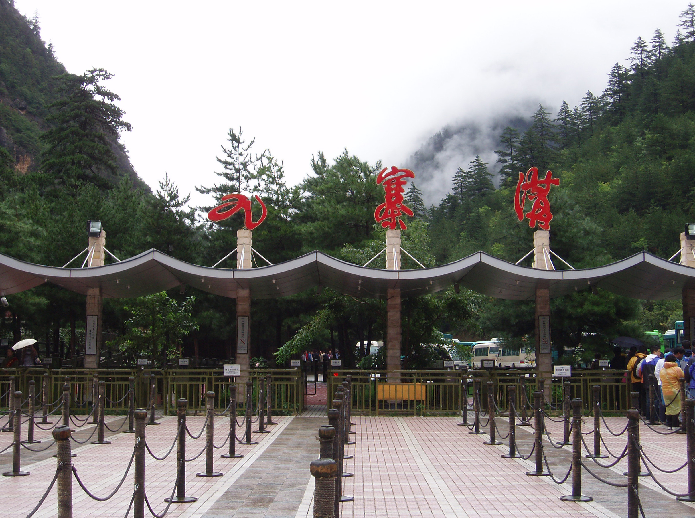 The entrance of Jiuzhaigou Valley scenic spot in Sichuan,China